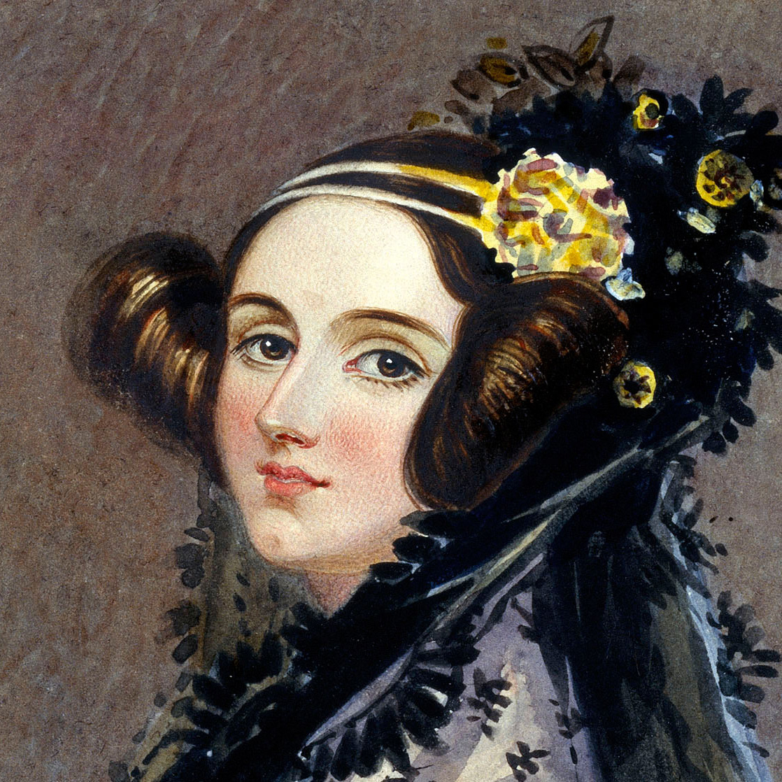 Depicted person: Ada King, Countess of Lovelace